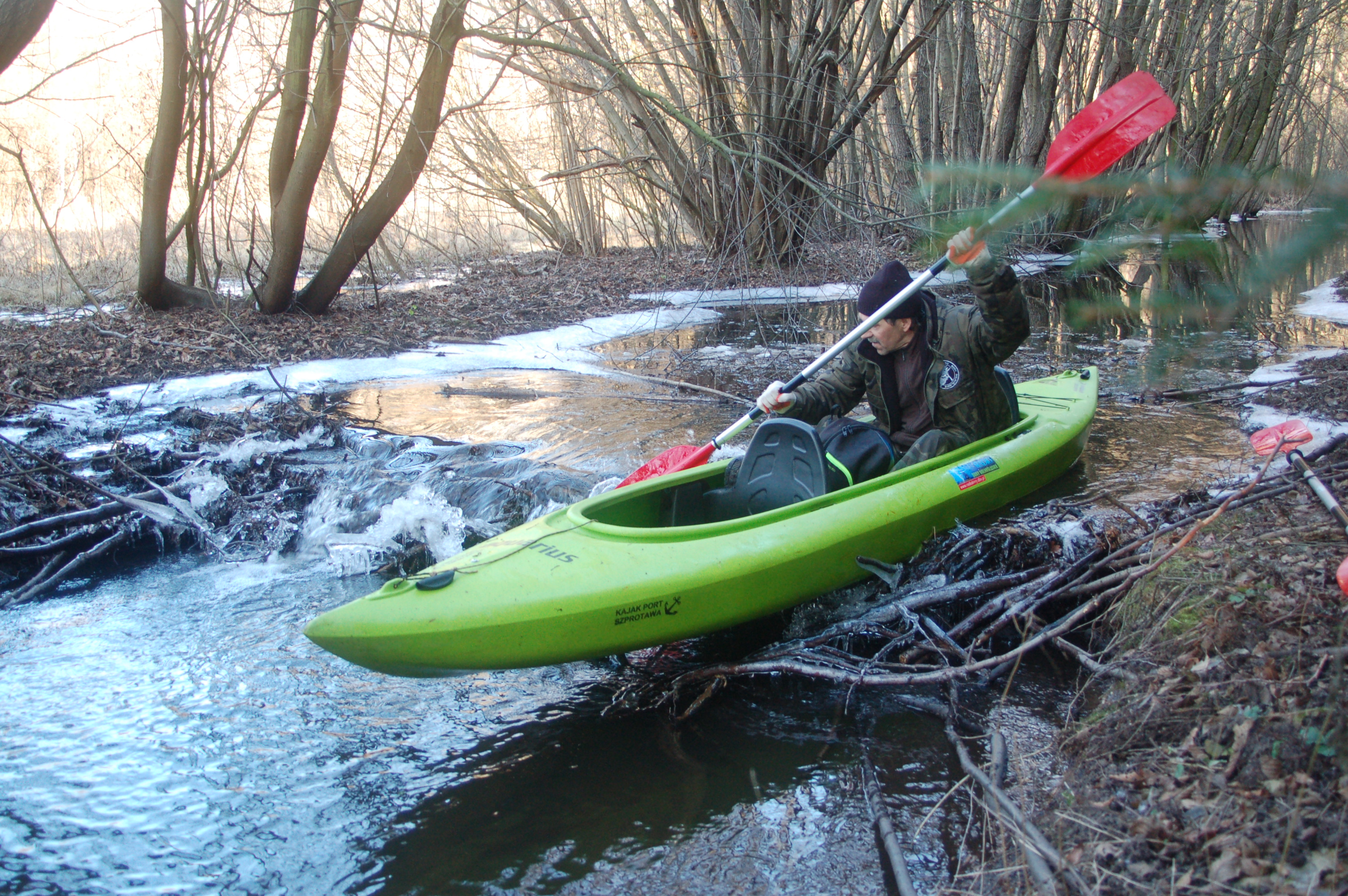 Logjams on the river Sucha (districkt Żagański) in Poland